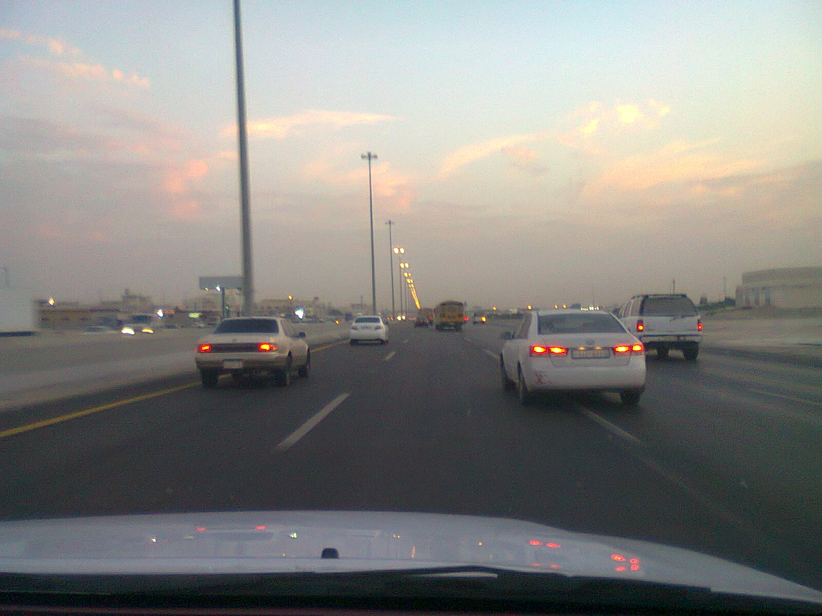 Dhahran jubail express way, deserts of saudi Arabia